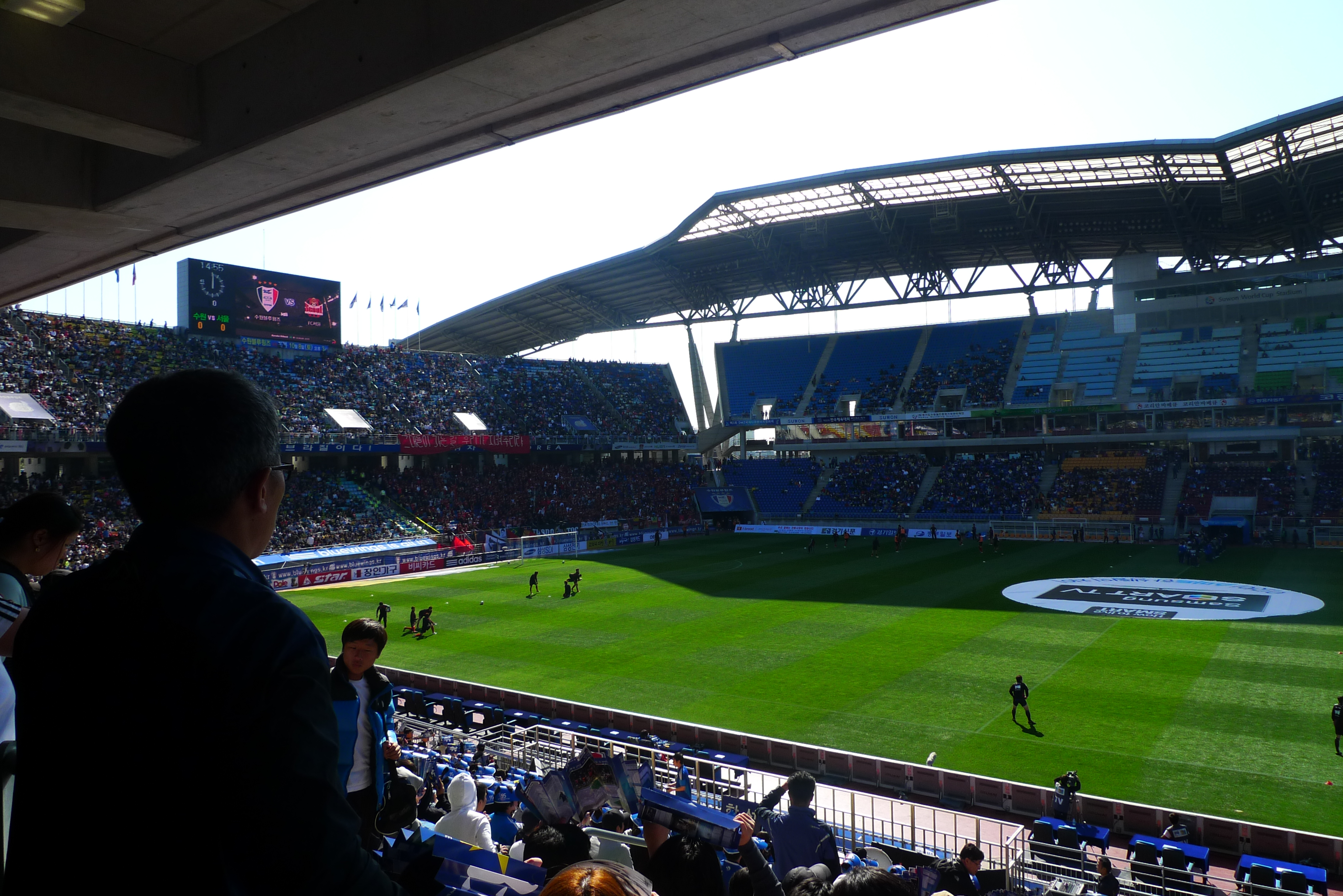 Left side of Suwon World Cup Stadium. (Taken 2011.10.03, match between Suwon and Seoul)